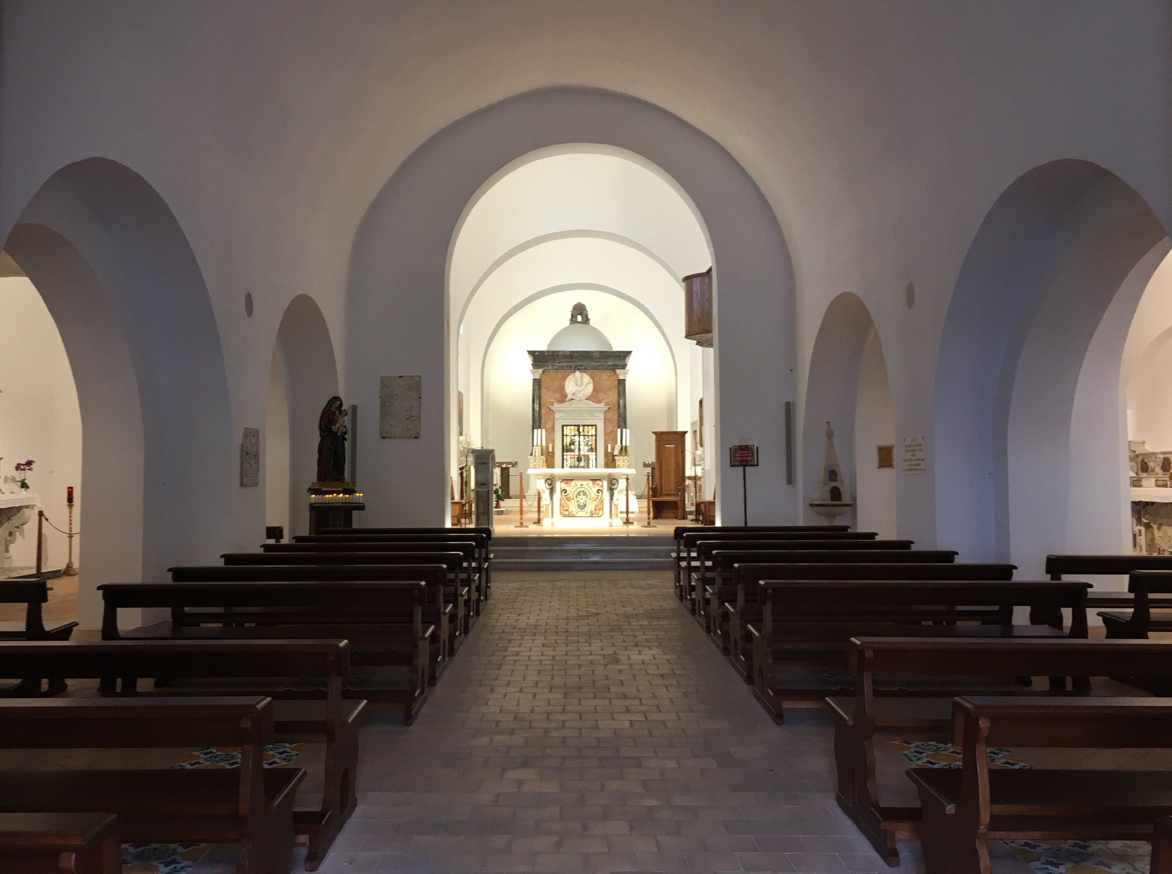 Inside of Saint Blaise basilica in Maratea.